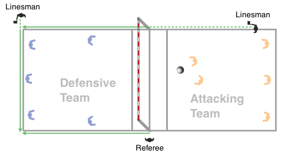 Positioning of fistball referees and linesman, in relation to game play.